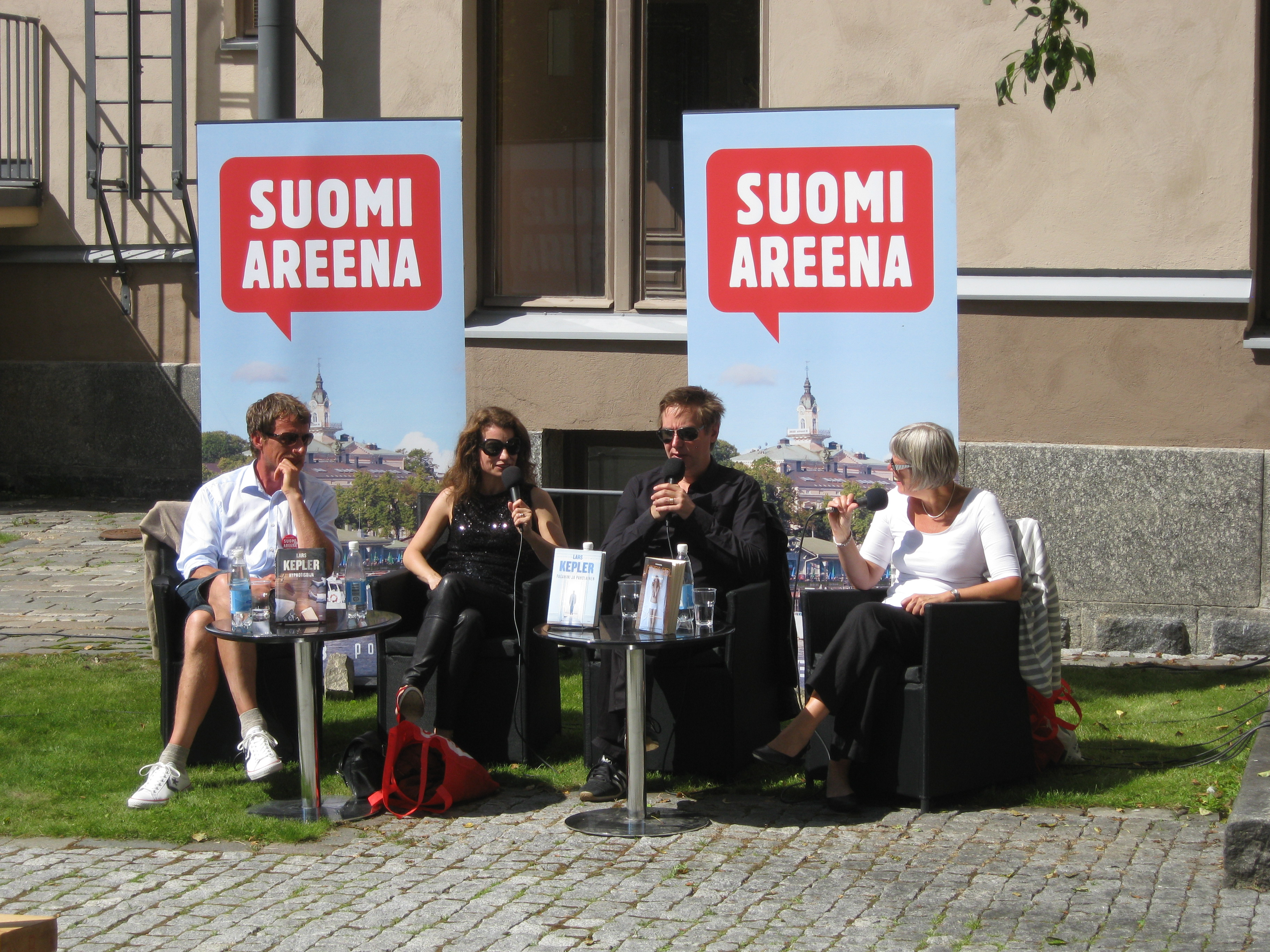 Finnish actor Tobias Zilliacus (left), Swedish novelists Alexander Ahndoril and Alexandra Coelho Ahndoril (pen name Lars Kepler) and host Maria Romantschuk at Pori, Finland.